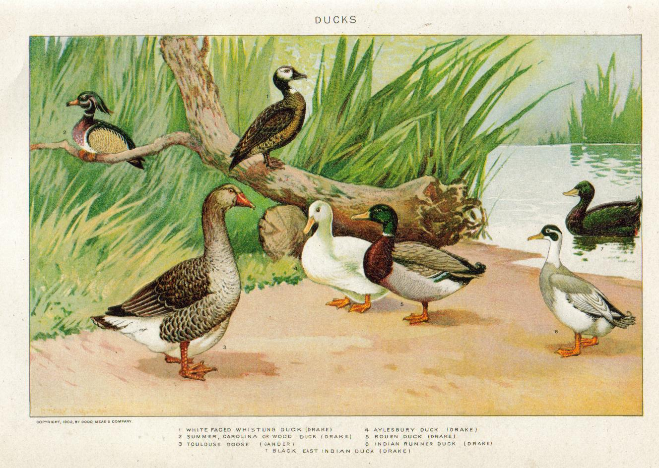 1902 illustration of ducks gleaned from the New International Encyclopedia